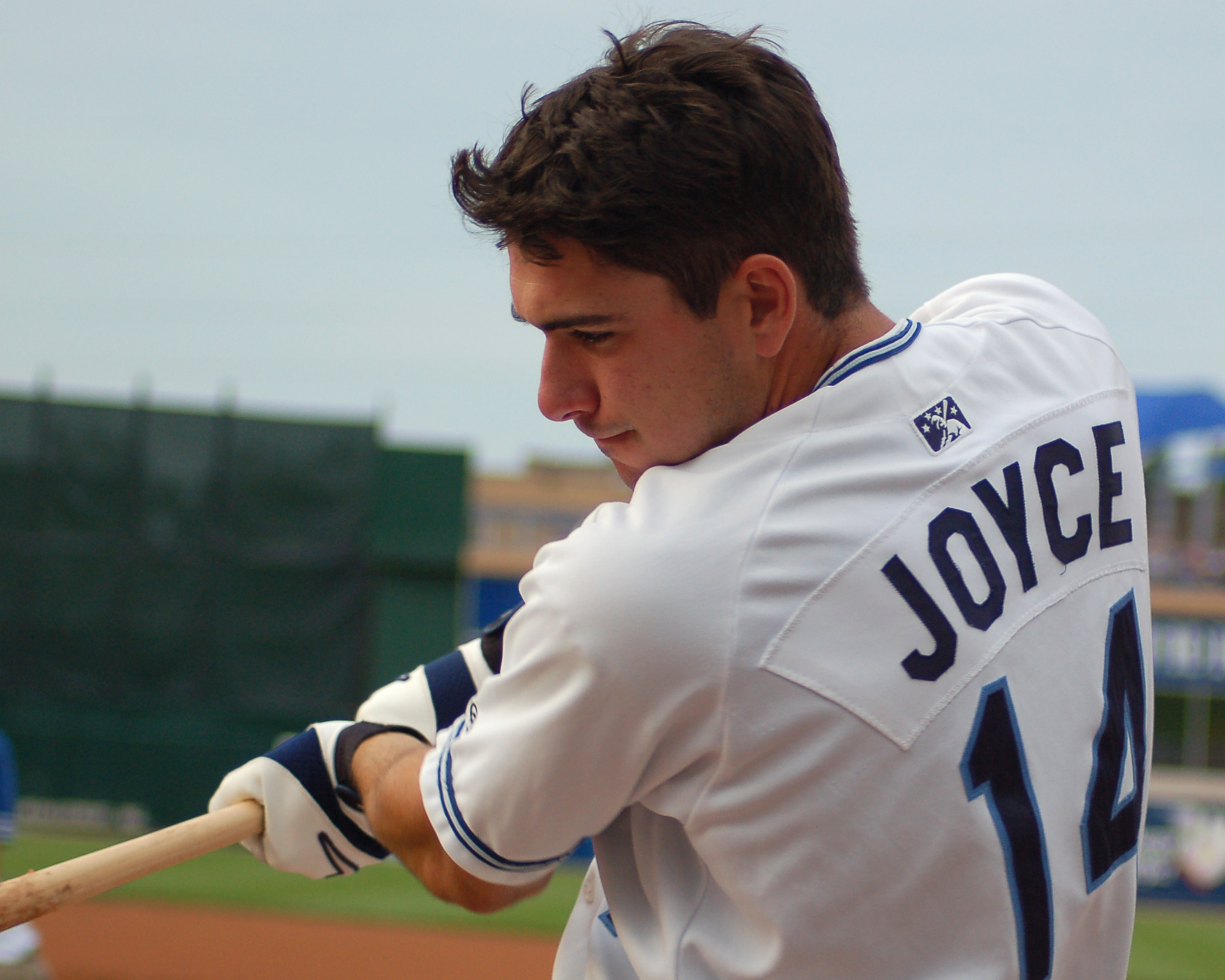 Matt Joyce while with the West Michigan Whitecaps.